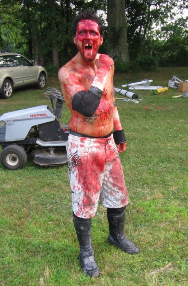 an American hardcore professional wrestler, J. C. Bailey - Tournament of Death 9